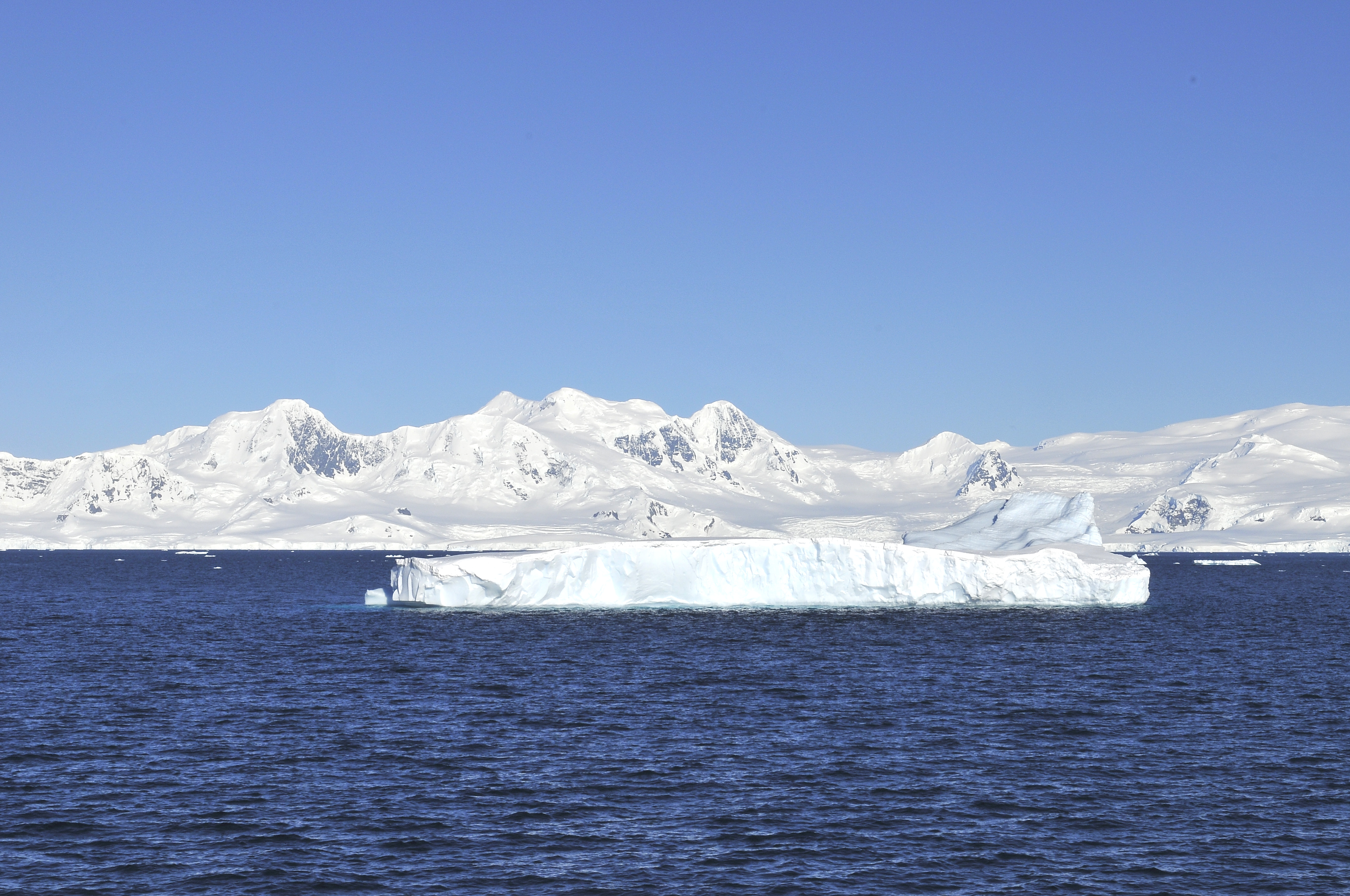 An iceberg in the Bransfield Strait; on the background, the Nansen Island, South Shetland Islands, Antarctica